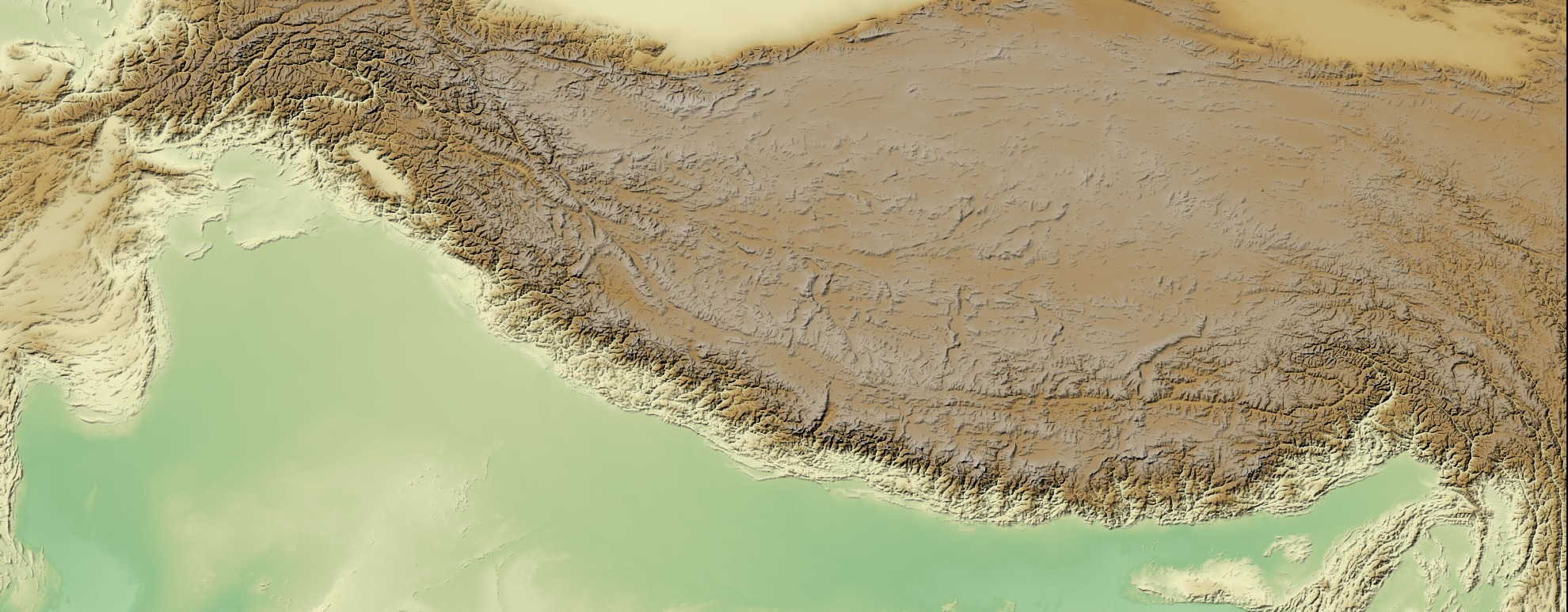 Wikiatlas test.